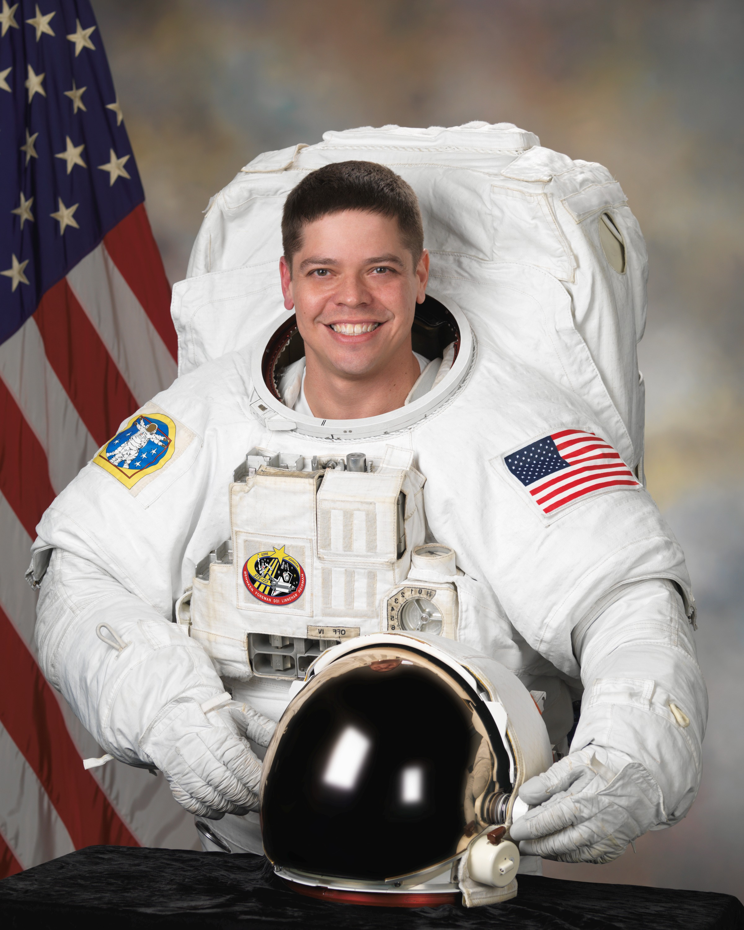 Official portrait image of NASA astronaut Robert Behnken